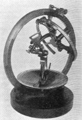 Burt's equatorial sexton invention of 1858